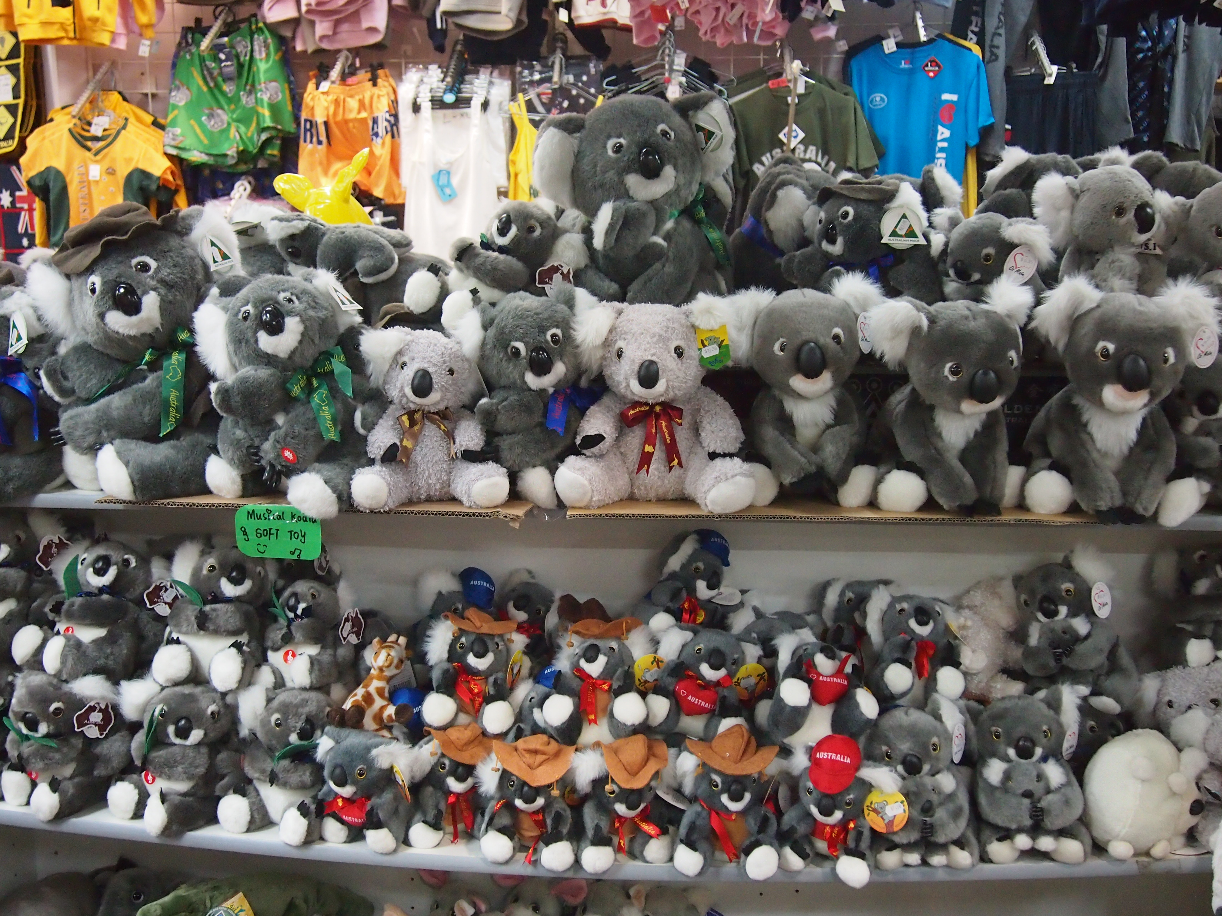 Koala souvenirs - soft toys - in a Chinatown shop in Moonta Street, Adelaide Original filename=P6072623.JPG